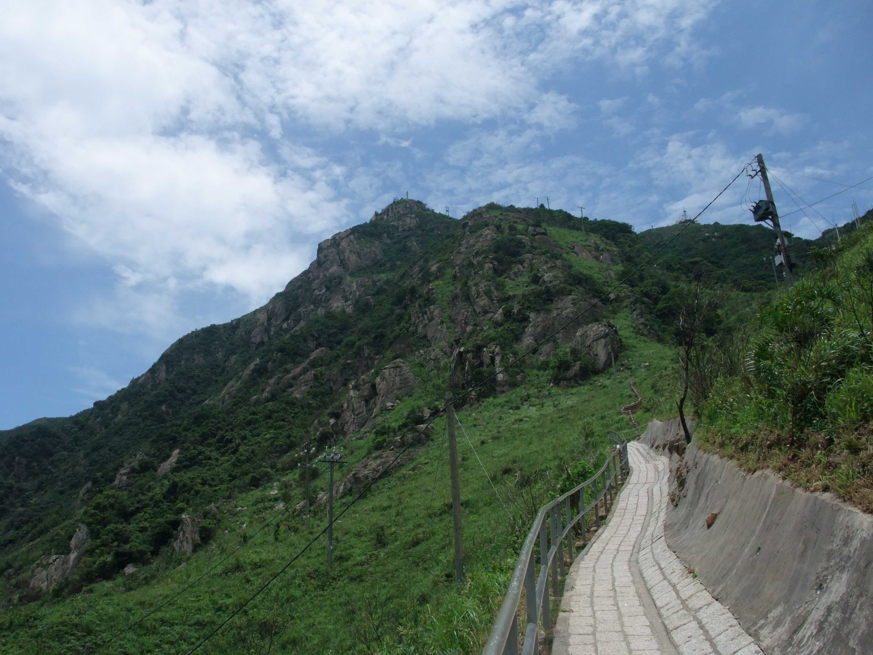 Photo of Castle Peak